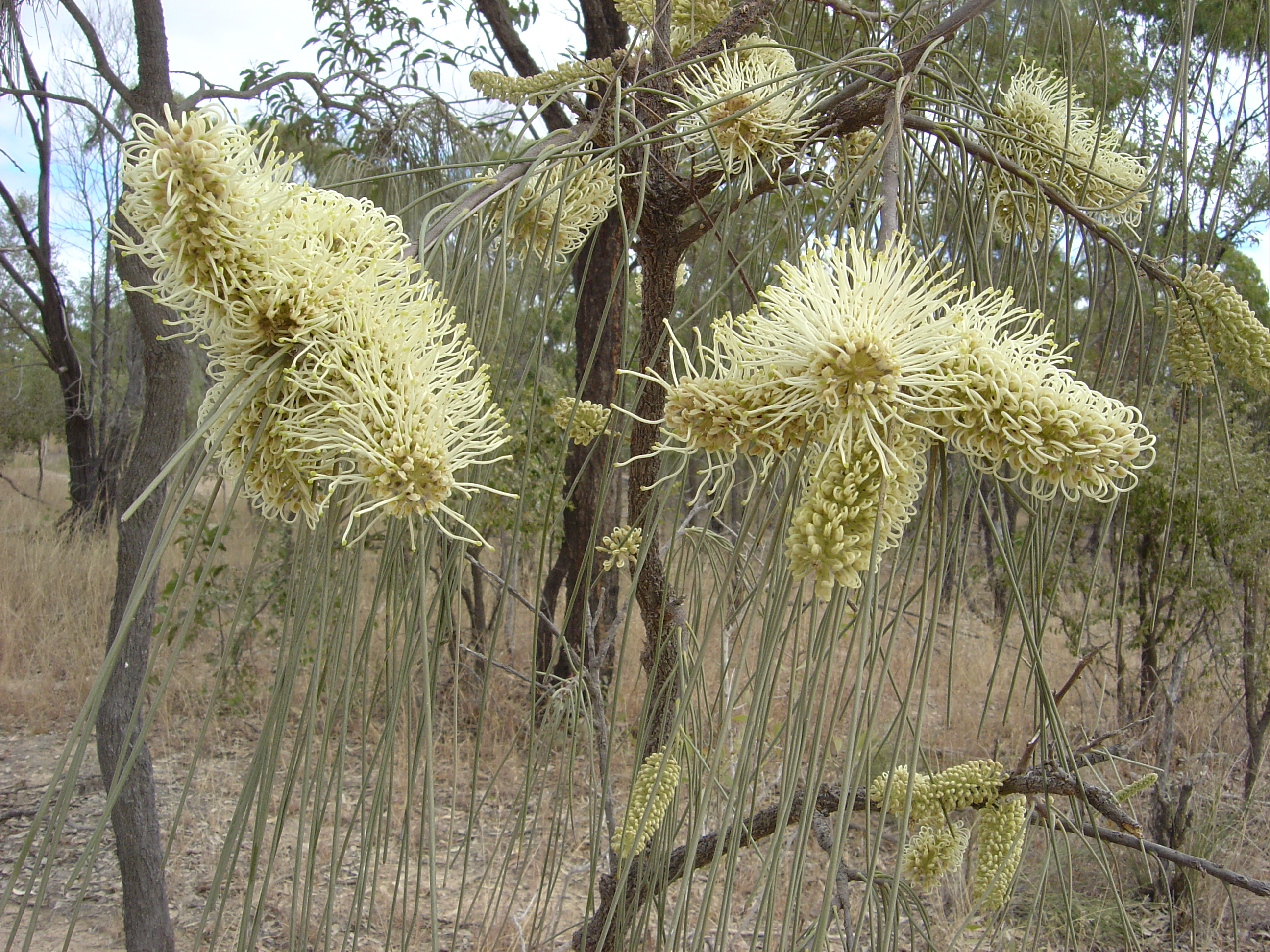 Mt Coolon Rd (south of Townsville in north Queensland)